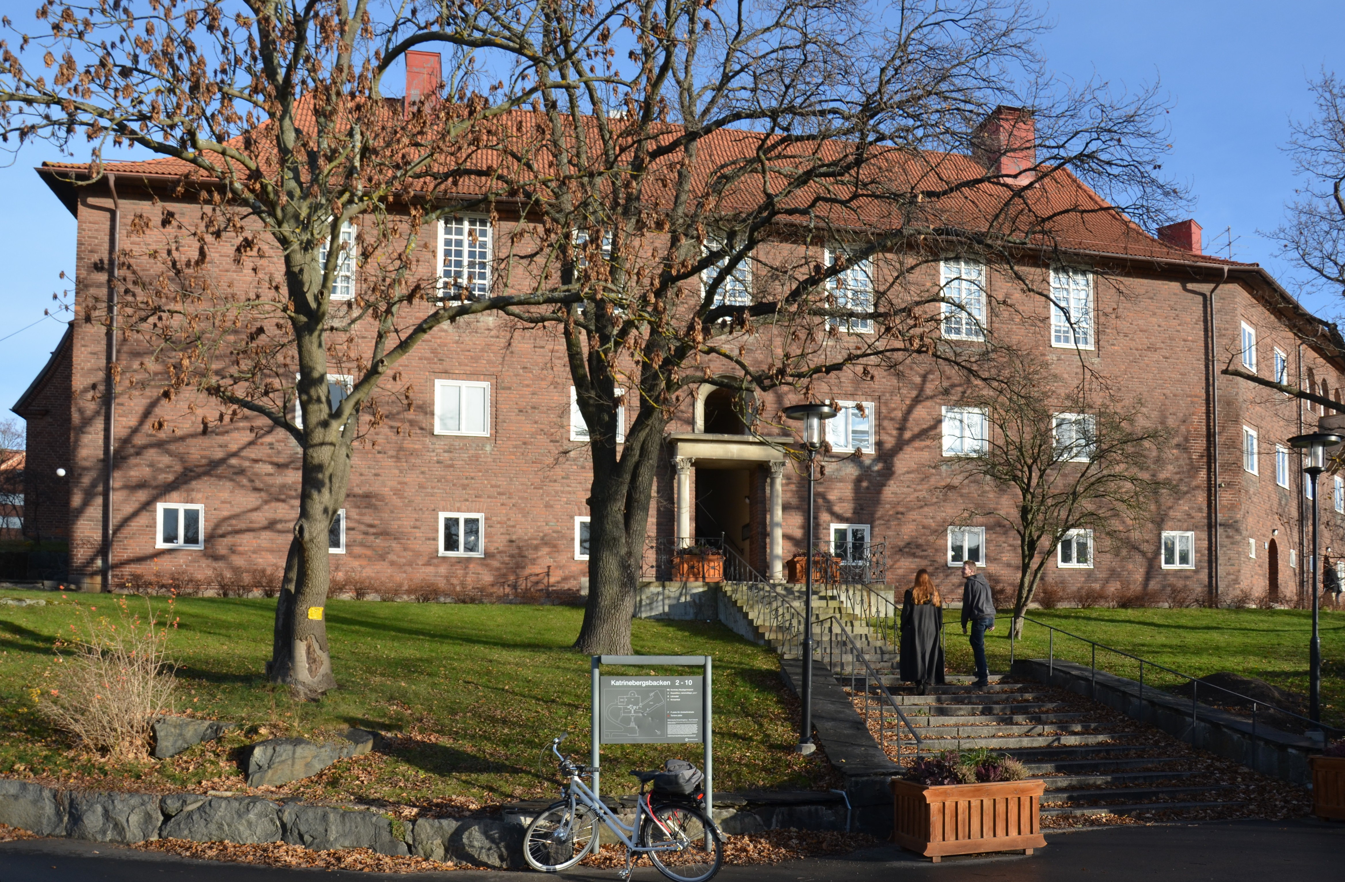 Nordiska musikgymnasiet i Liljeholmen, i tidigare Liljeholmens församlingshem av Hakon Ahlberg